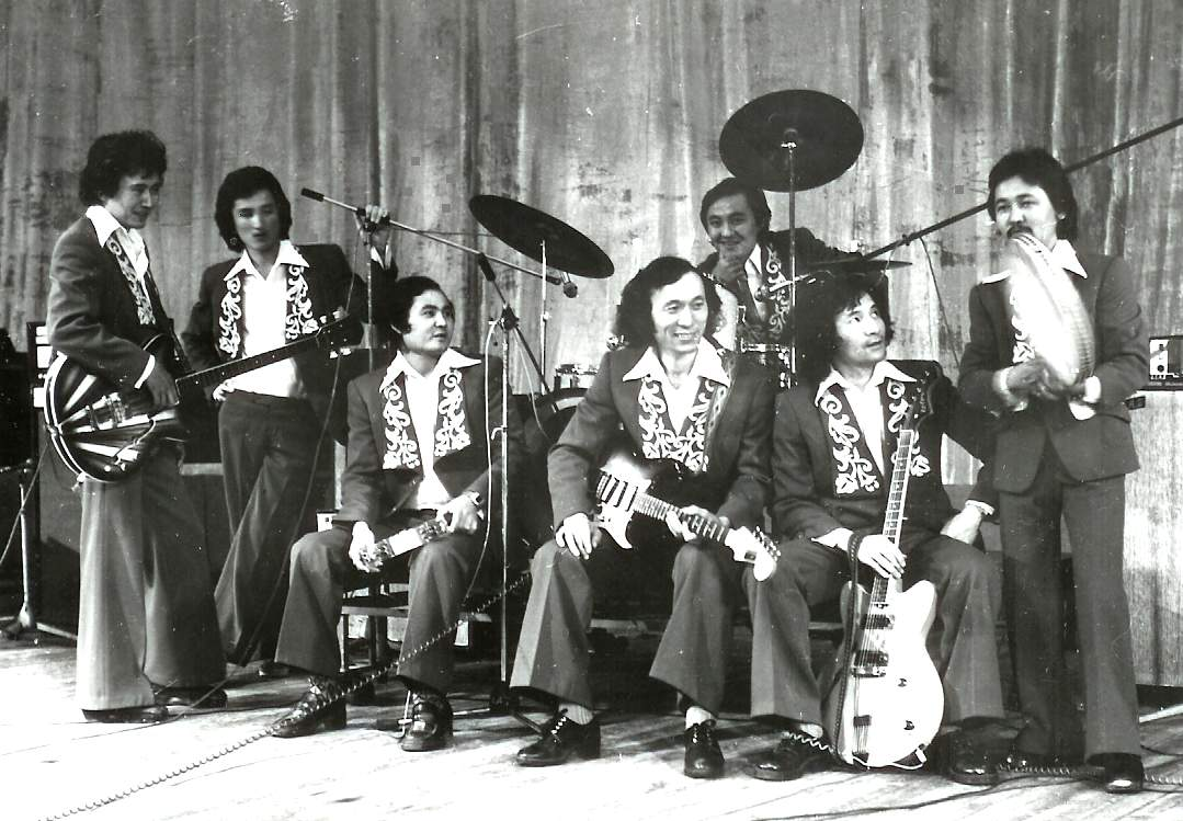 Dosmukasan